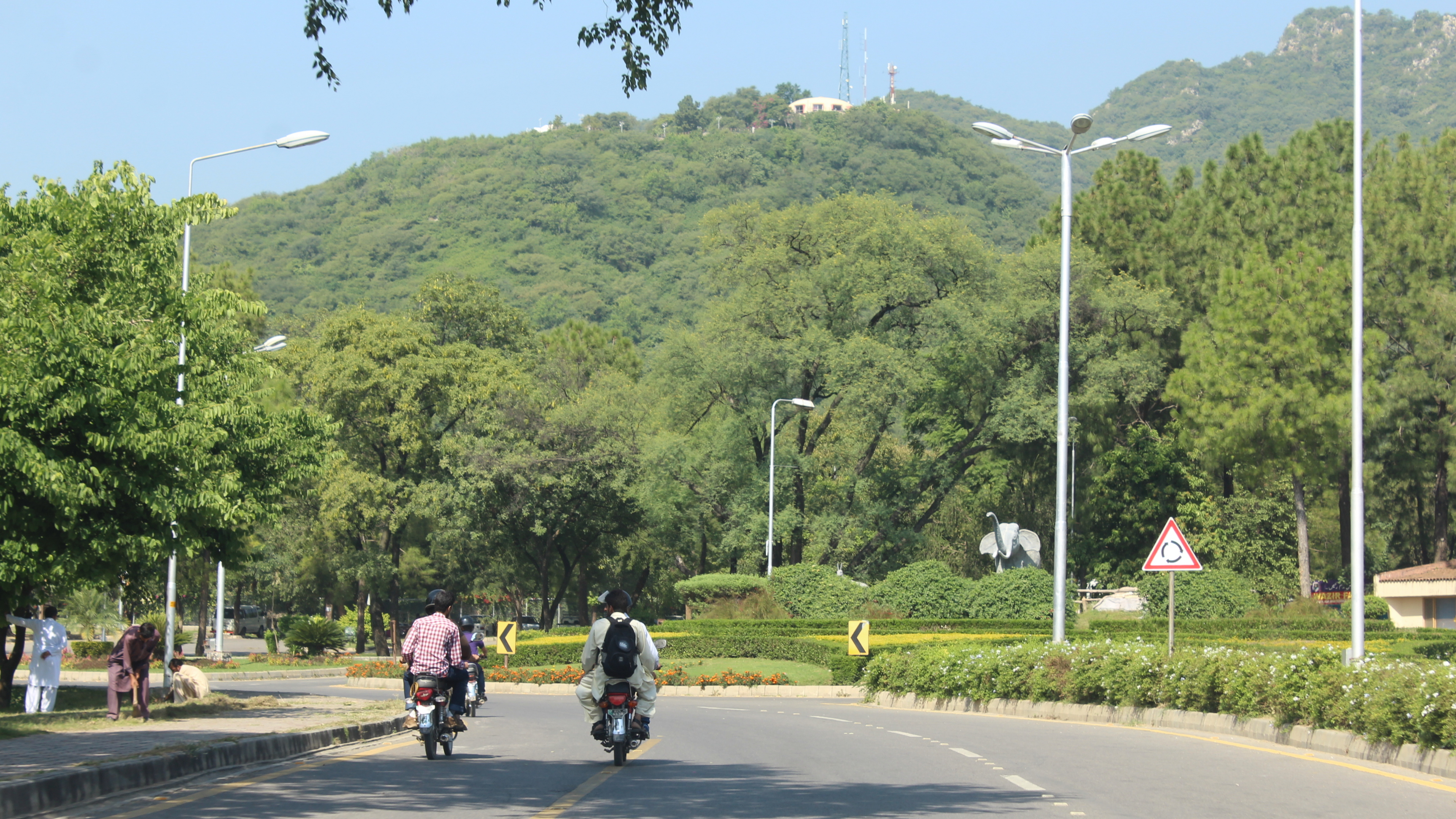 Margala Hills , View from Margala Avenue.